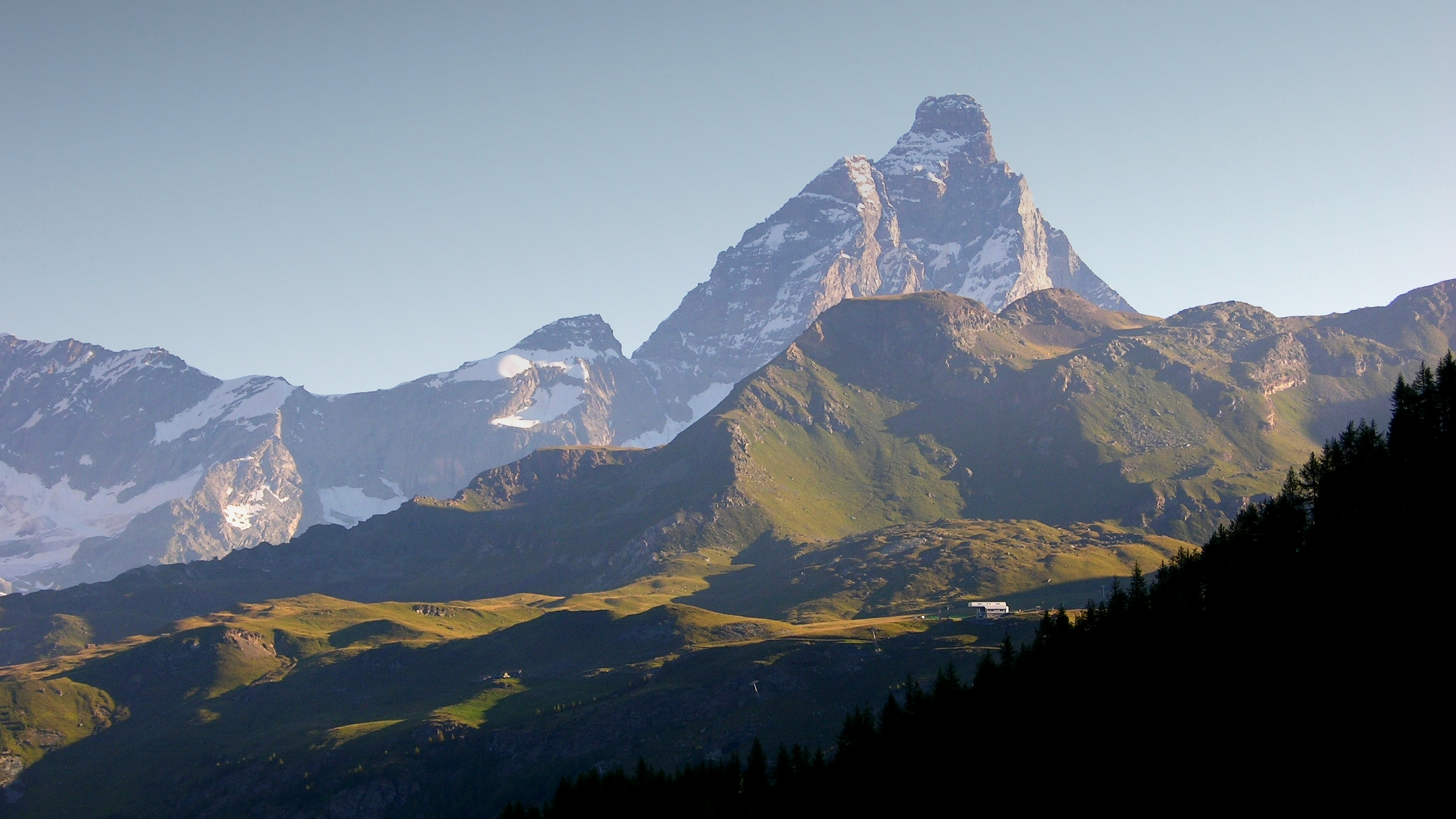 The Matterhorn seen from the Italian Valtournanche